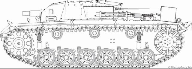 Side drawing of a Assault Gun III, Variant A